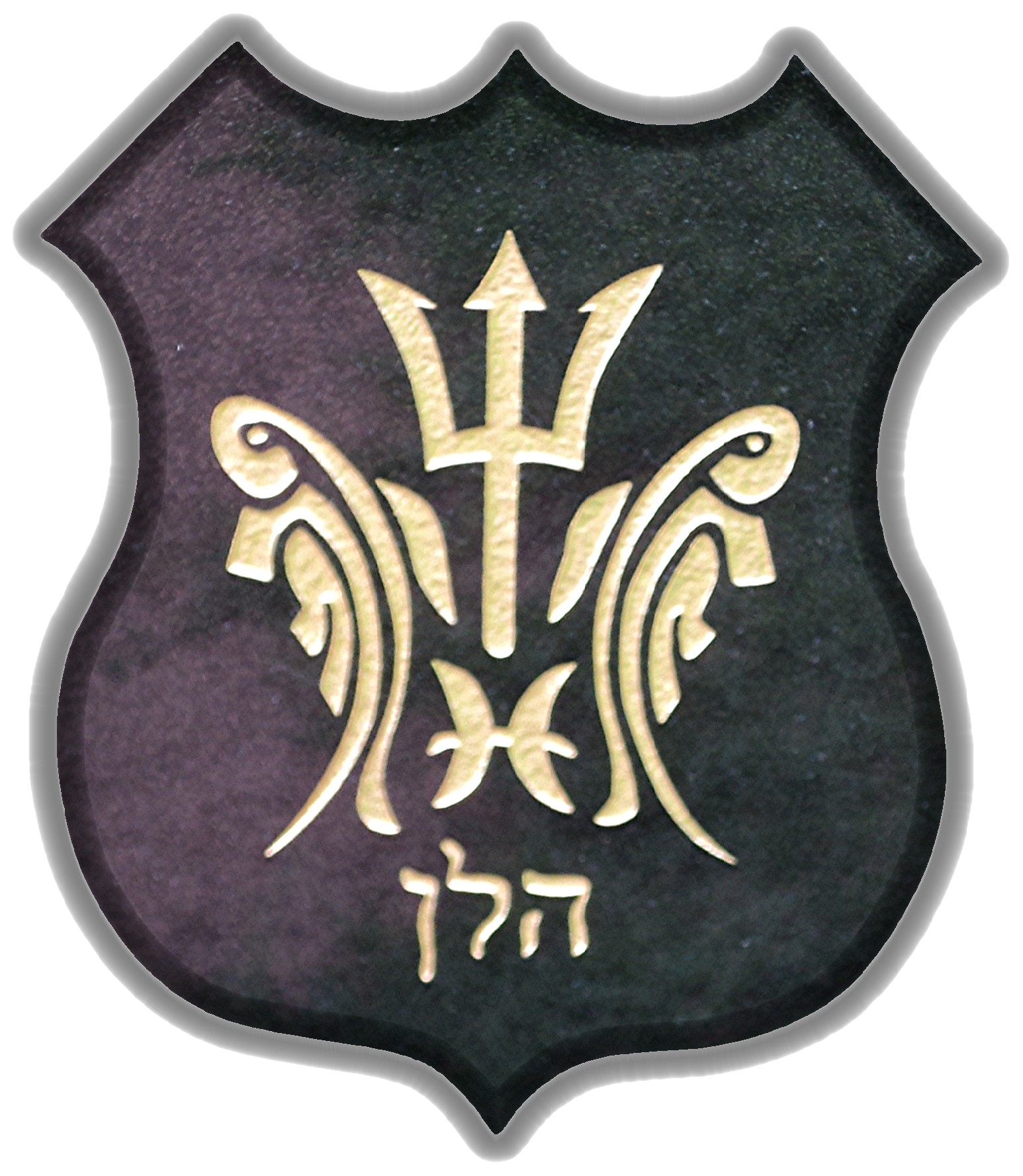 Clan Helon ben Zebulon motif as appearing on the headstone of Z.A. Helon: Toowoomba; features the rendering of the name in its traditional Hebrew form.